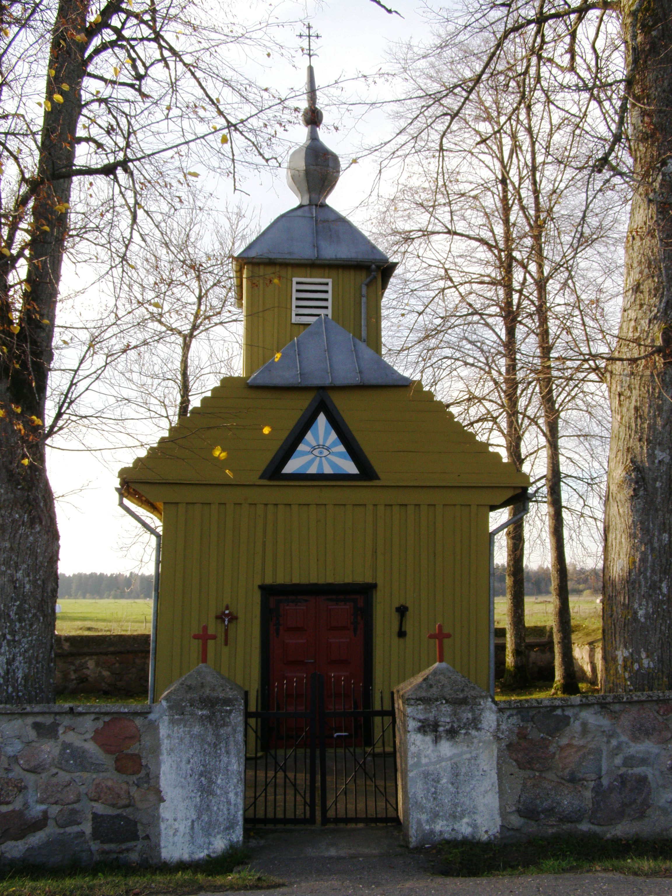 Šatraminiai chapel, Skuodas district, Lithuania